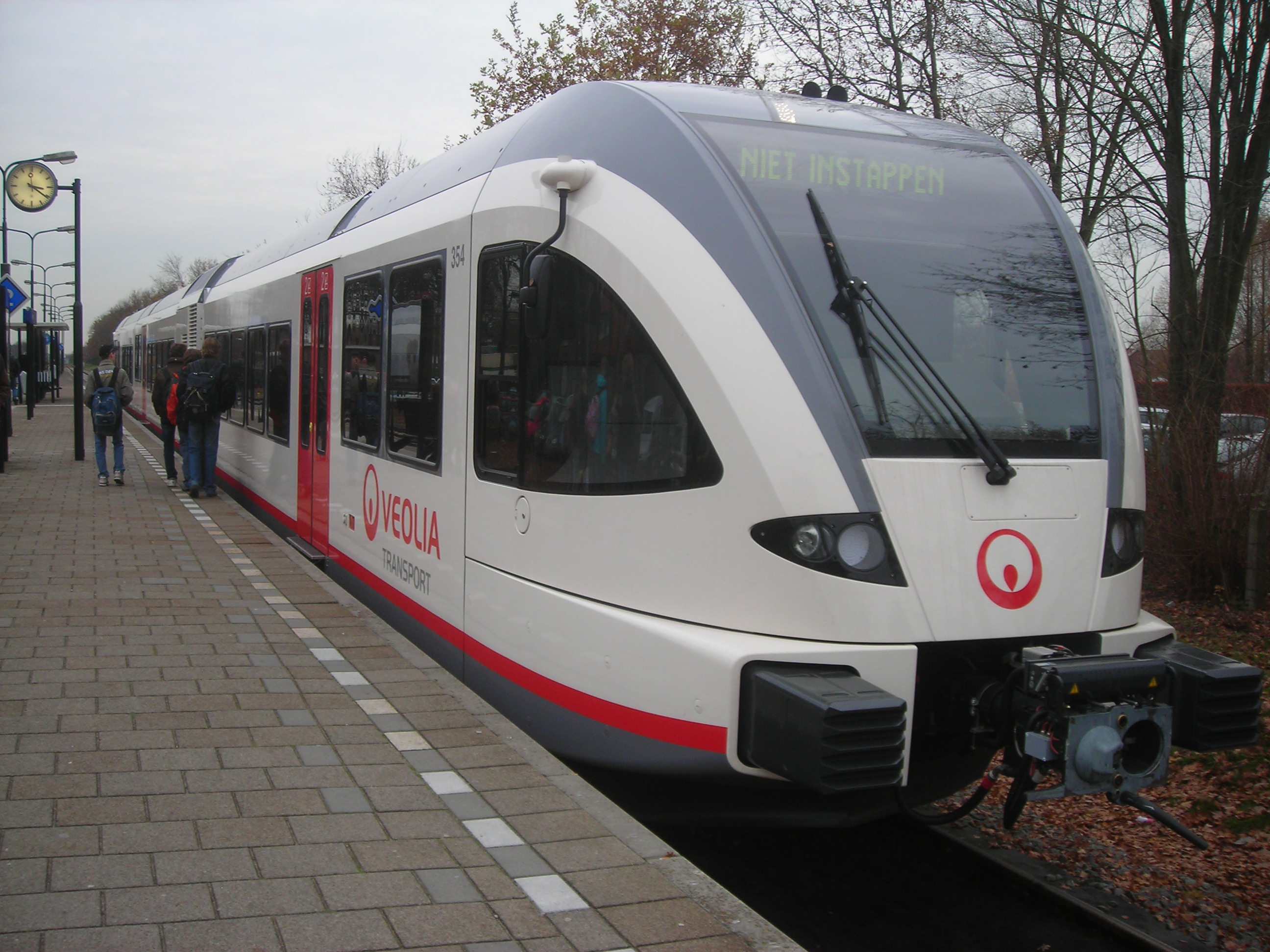 The front of Veolia GTW 354 in Boxmeer, The Netherlands